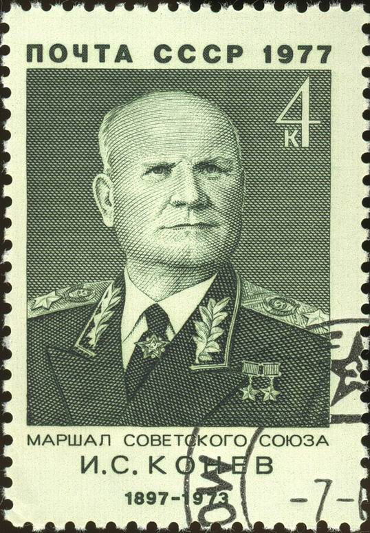 A USSR stamp, Military persons of the USSR